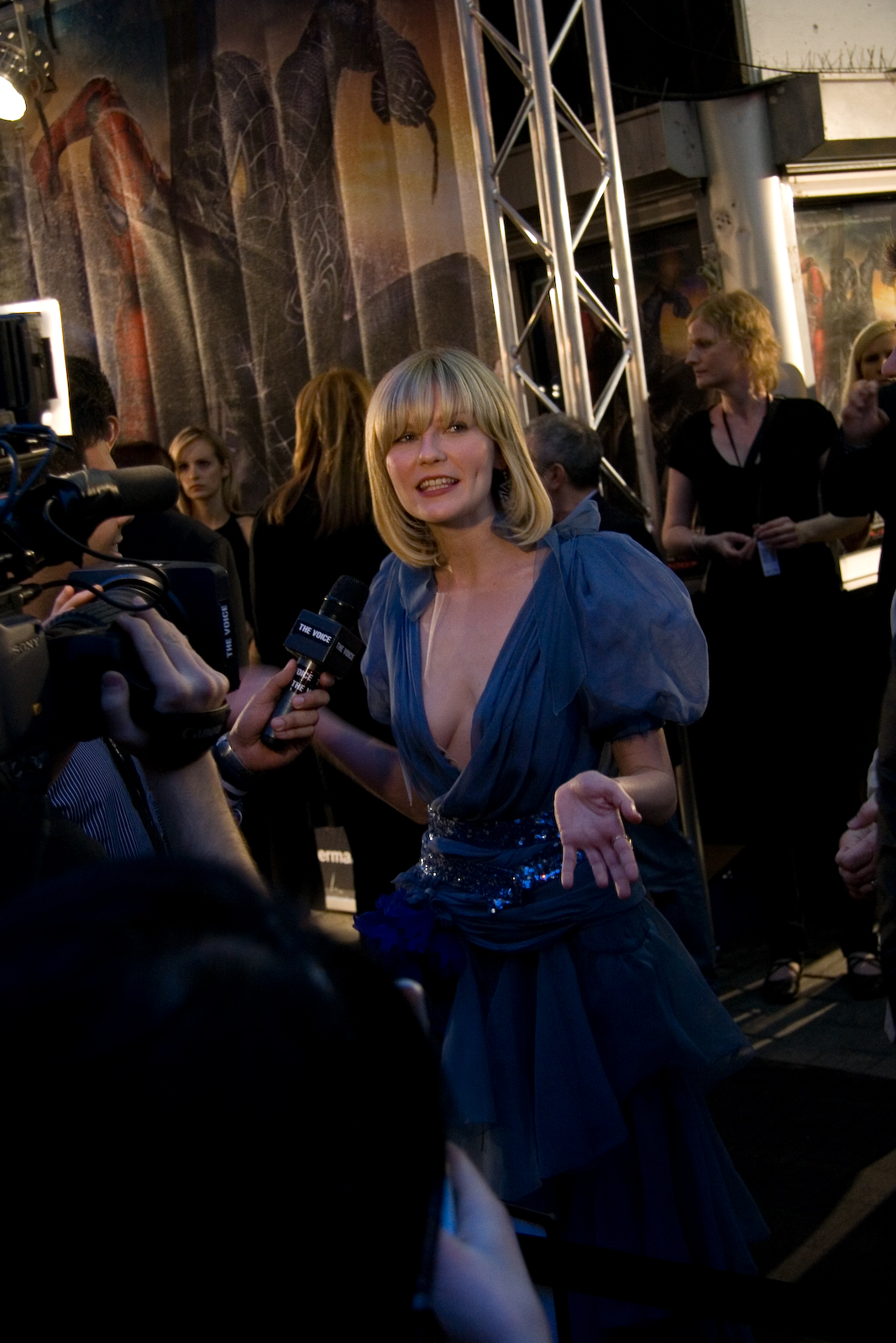 Kirsten Dunst at the Sweden premiere of Spider-Man 3.